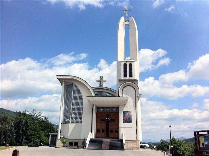 St. Elijah the prophet church in Kiseljak